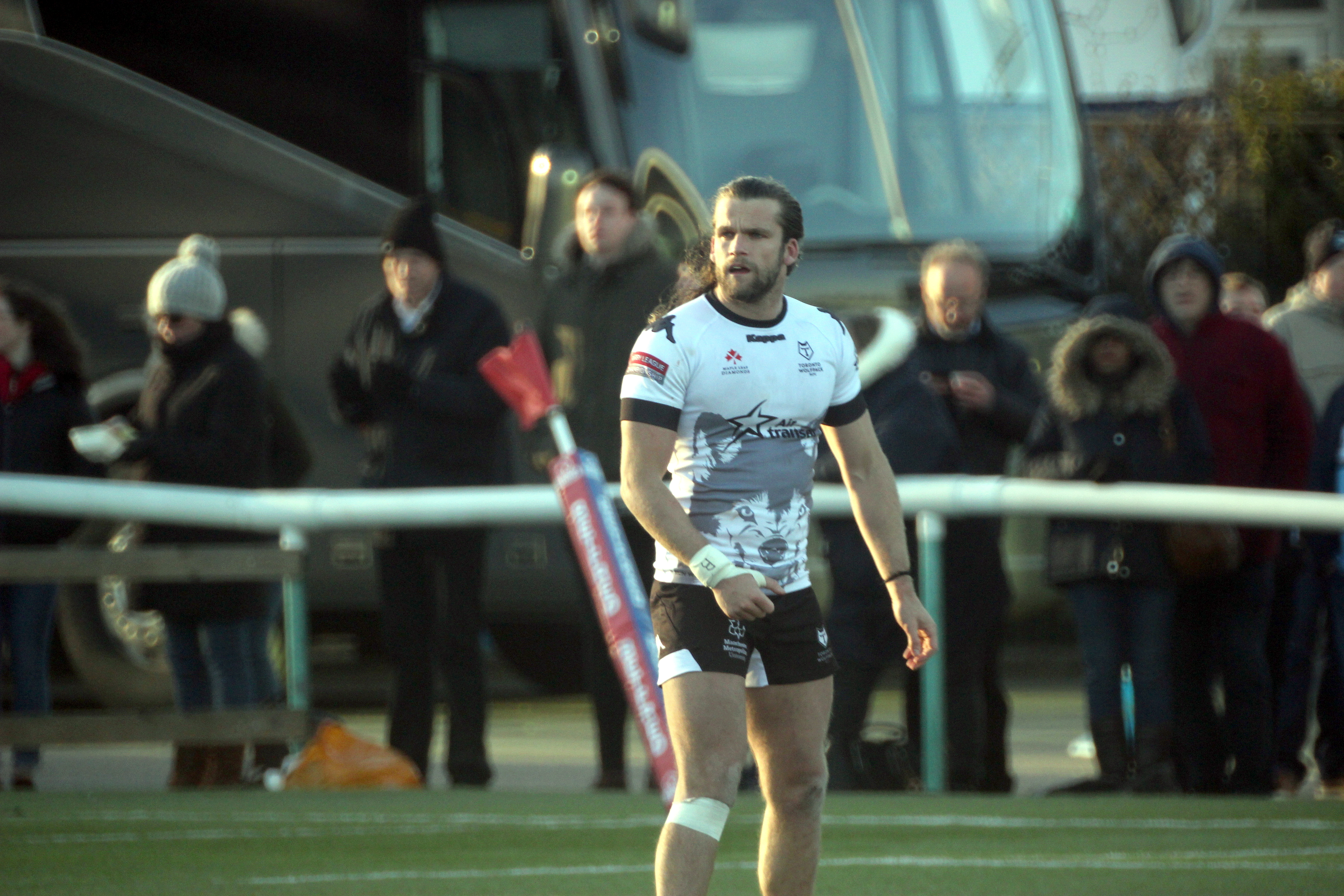 Liam Kay